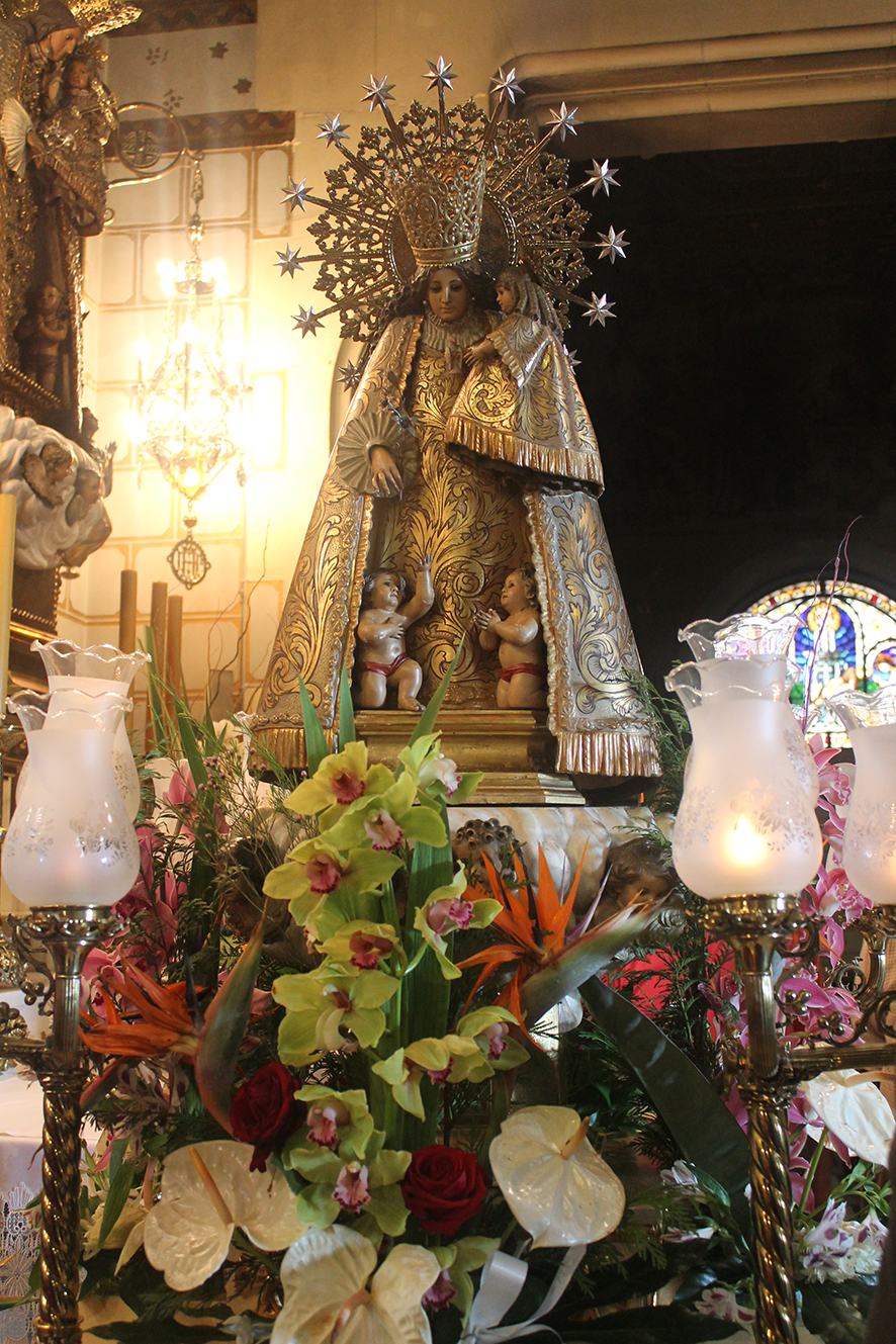 Image of Our Lady of Forsaken in the Royal Sanctuary of Saint Joseph of the Mountain in Barcelona. Under this dedication of the virgin the Beata Petra of Saint Josep it founded the Mothers' Congregation of Forsaken and Saint Joseph of the Mountain.